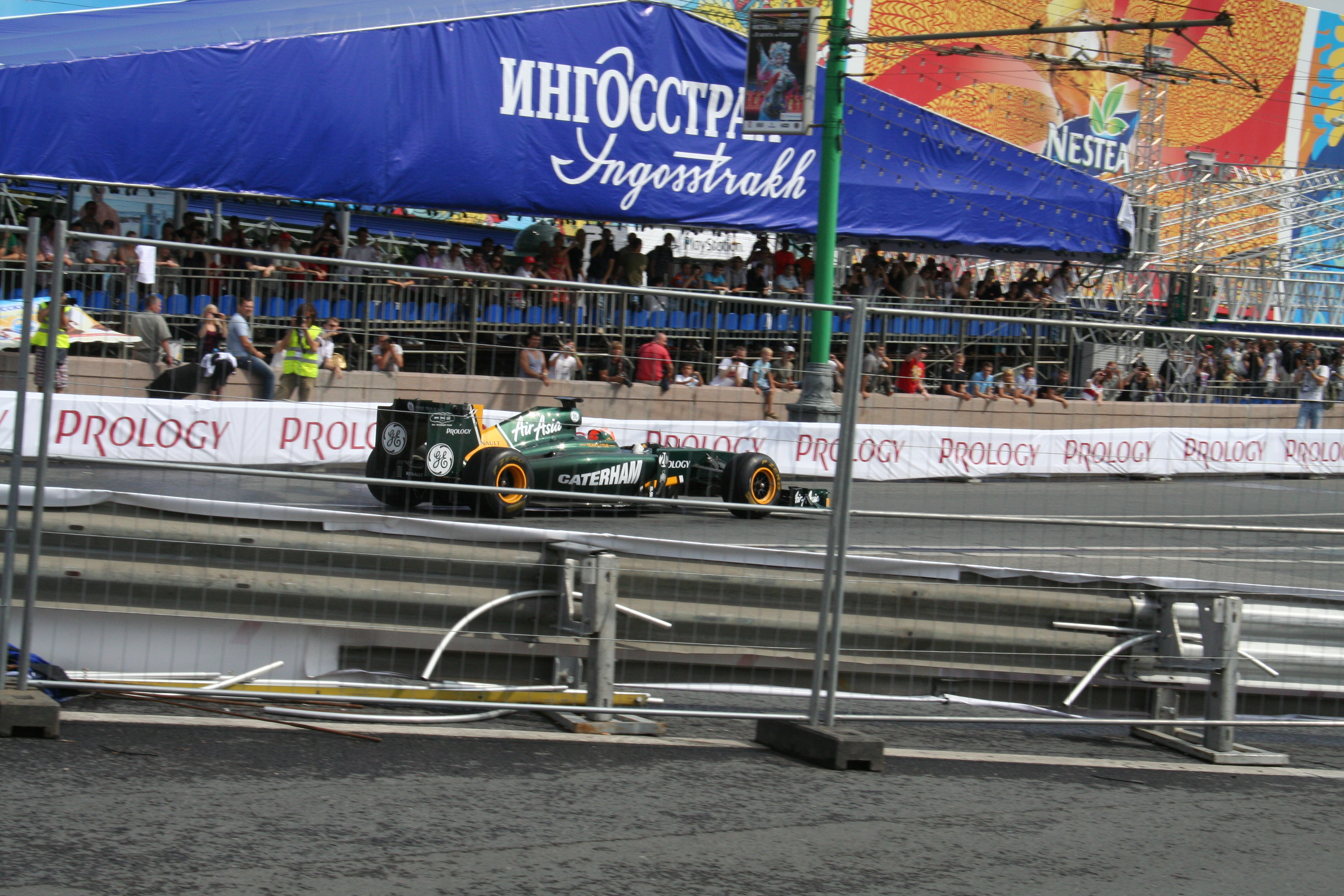 2011 Moscow City Racing